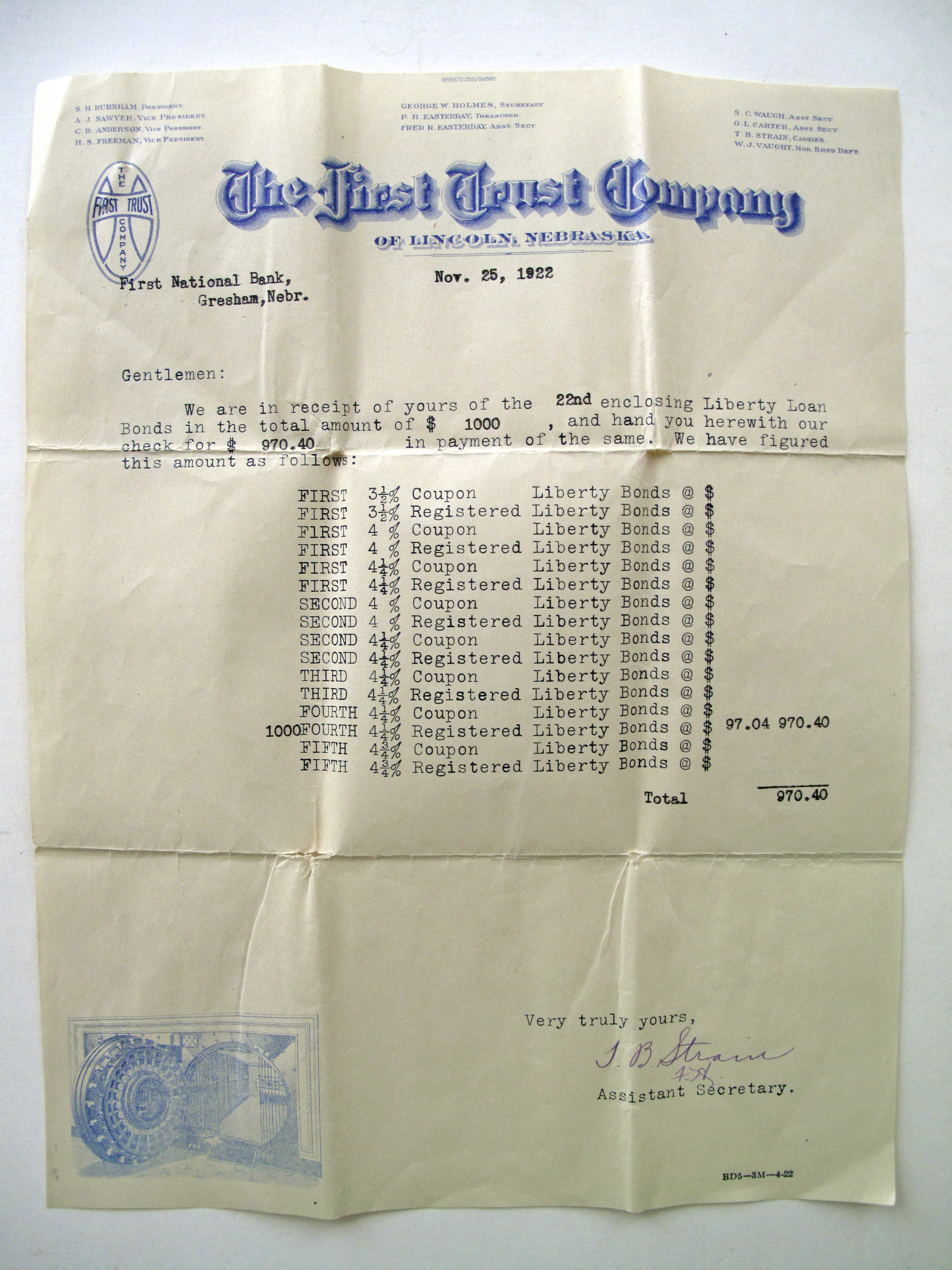 Redemption letter dated Nov. 25, 1922 for liberty bonds.